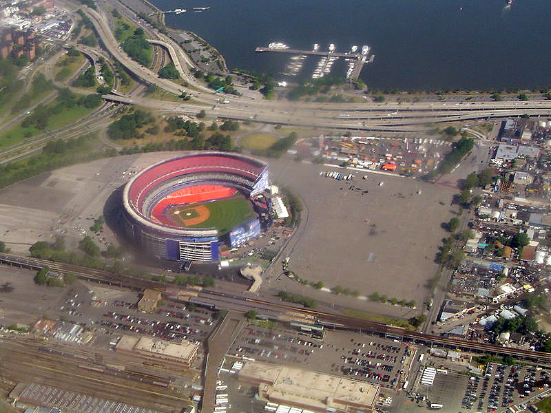 Aerial view of William A. Shea Municipal Stadium, usually shortened to Shea Stadium, located in Flushing, Queens, New York City. In the foreground the IRT Flushing Line of the New York City Subways can be seen with the Willets Point–Shea Stadium station in the middle. The wide footwalk leads to Flushing Meadows Park. At the lower left corner there is the Corona Yard facility. The long inspection shed was torn down in August 2006.